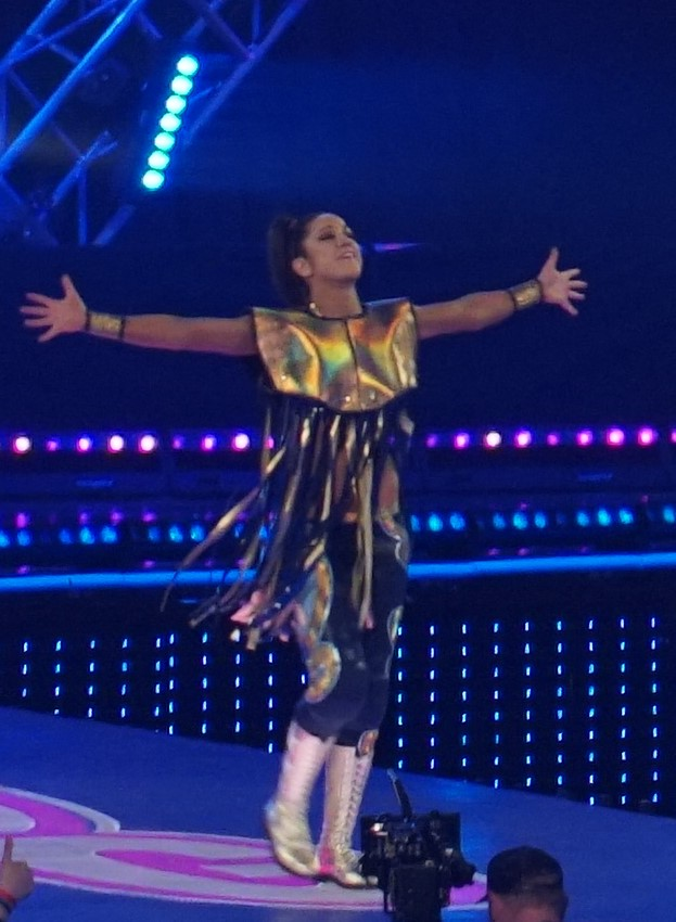 Bayley enters WrestleMania 34